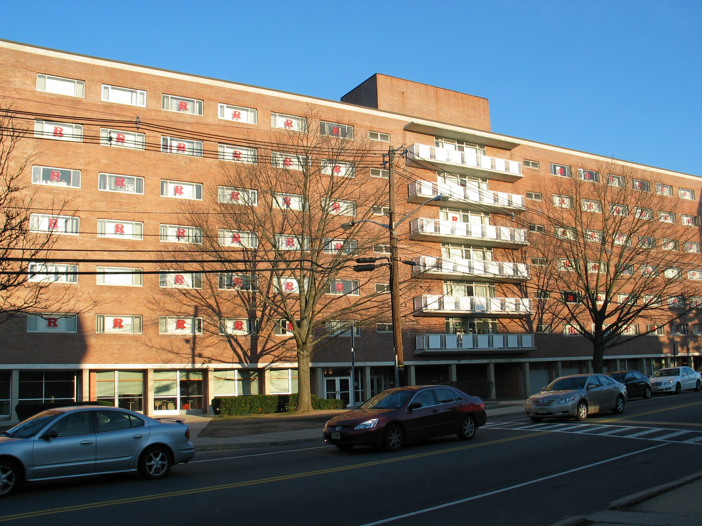 Frelinghuysen Hall, College Avenue Campus, Rutgers University